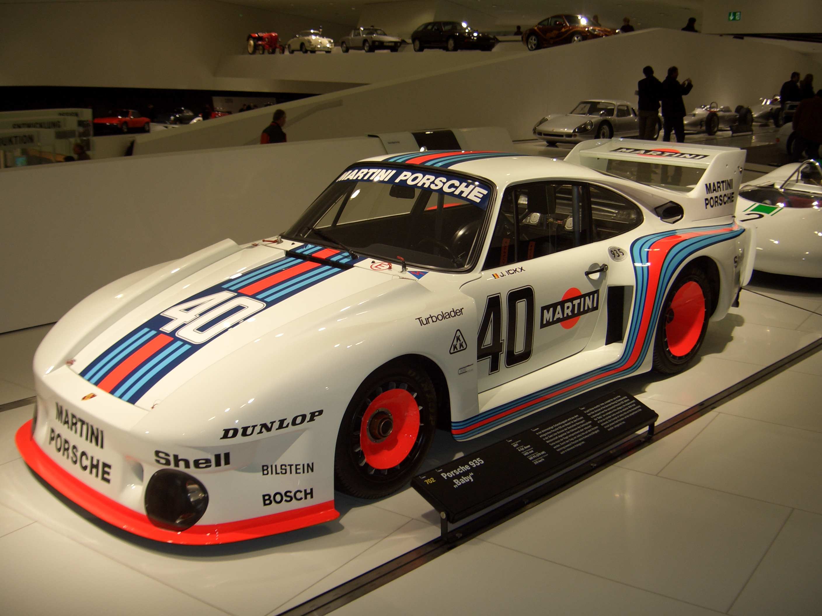 Porsche 935-2.0 Coupe Baby 1977 frontleft - seen at PORSCHE MUSEUM in Stuttgart, Germany.